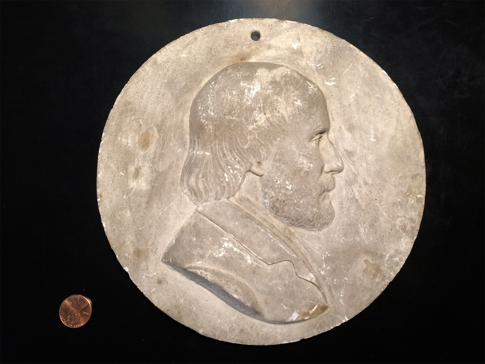 Bas relief by sculptor Salathiel Ellis, 1865, obverse